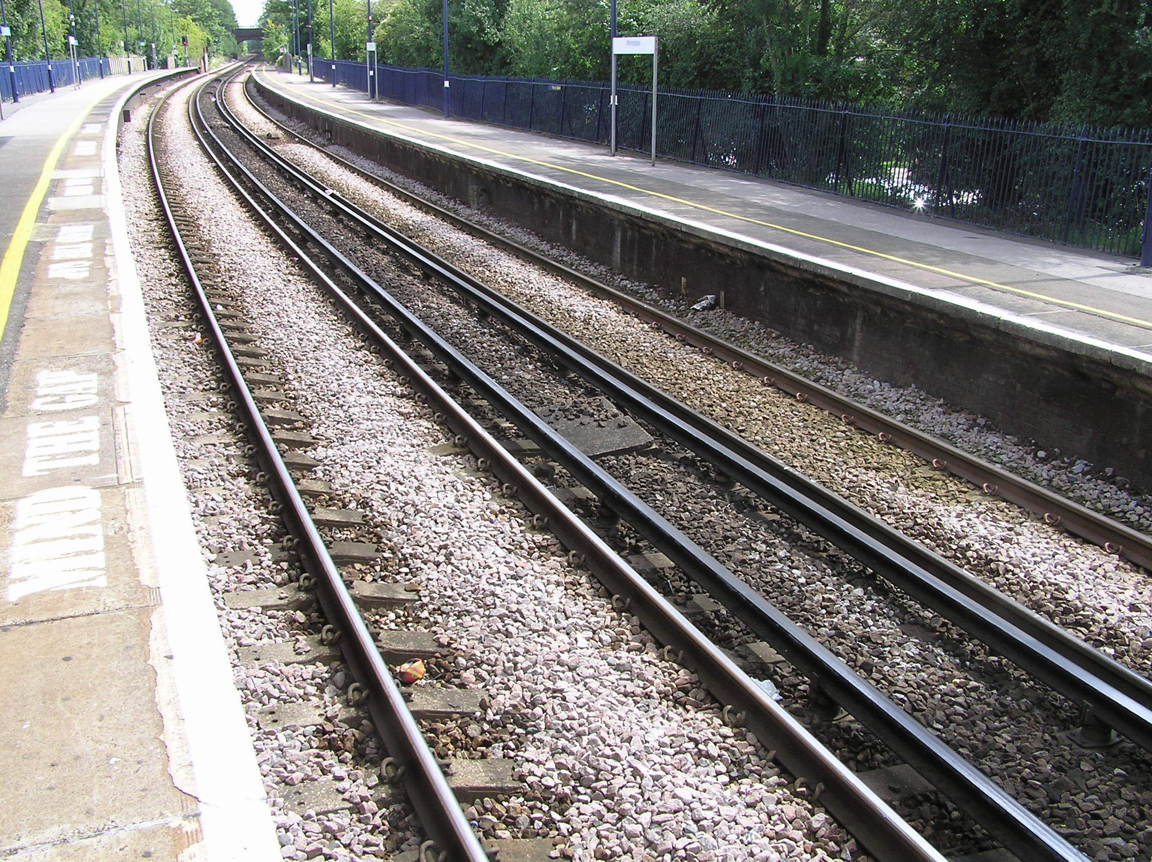 Continuously welded rail track with conductor rail; installed in the 1970's; photographed August 2007 at Whitstable, looking west.